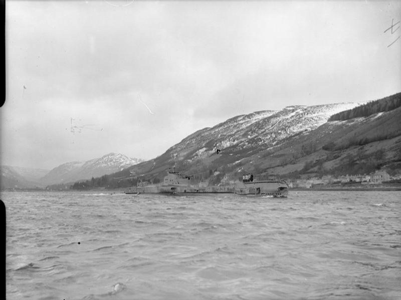 The Royal Navy during the Second World War HMS TALISMAN seen arriving home after a successful period of service in the Mediterranean.